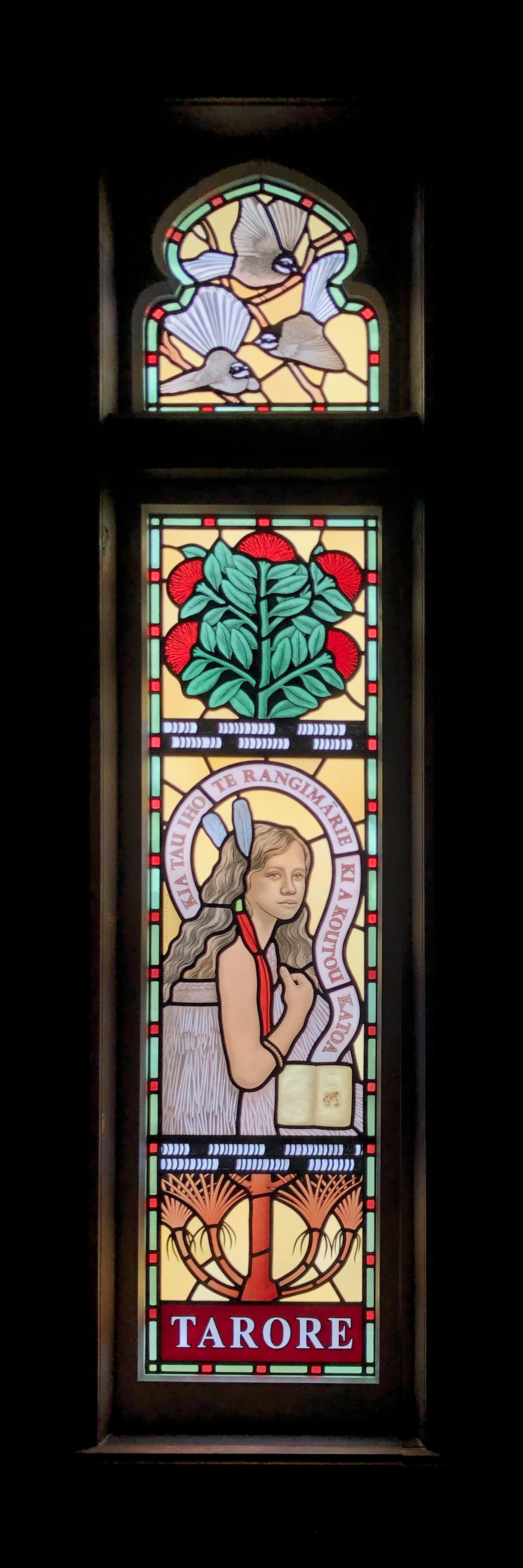 Tārore stained glass window, designed by Suzanne Johnson of Glassworks in Mt Eden, Auckland in 2011. Three fantails at the top are symbols of Tārore's life as a Māori forest dweller and her connection to the Trinity. The informal flower image represents her youth but has links to similar images painted on the rafters of early buildings on marae. Tarore holds a copy of the Gospel of Luke in Te Reo Māori. The words around her head "Kia tau iho to rangimarie ki a koutou katoa" translate from Te Reo as "Peace be with you" and below her is depicted the tree of life – the Joshua Tree – the ladder to heaven, linked to early Christianity in New Zealand.